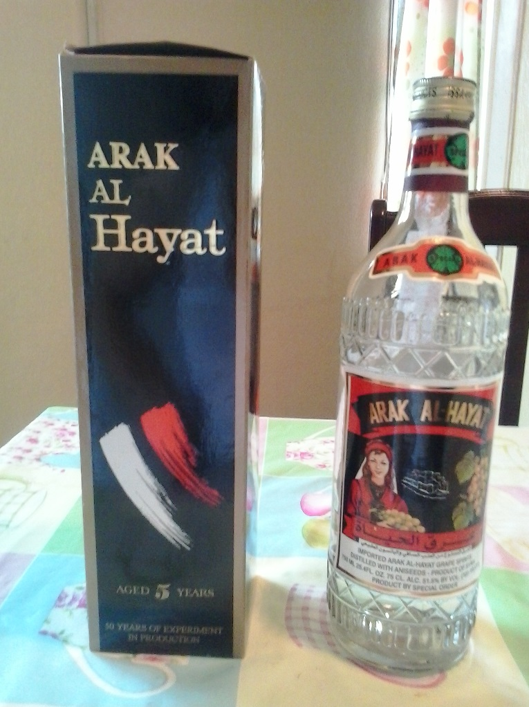 Arak Al Hayat from Issa al-Khouri Factories, Kafrram, Homs Governorate, Syria. 750 ml bottle, special edition, 5 years-aged, 51.5% alcohol, proof 103, 3-times distilled.